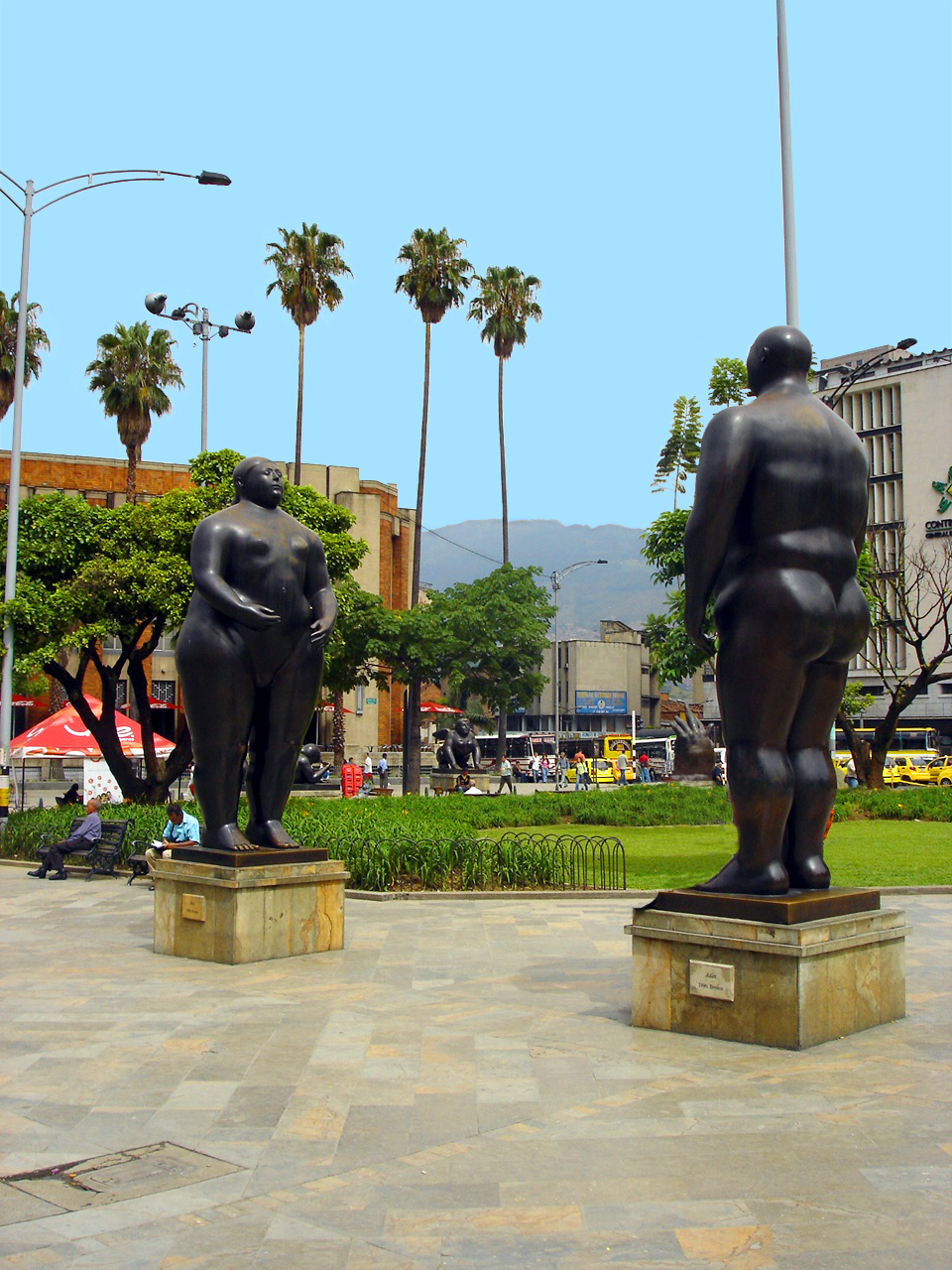 Taken by uploader on October 06